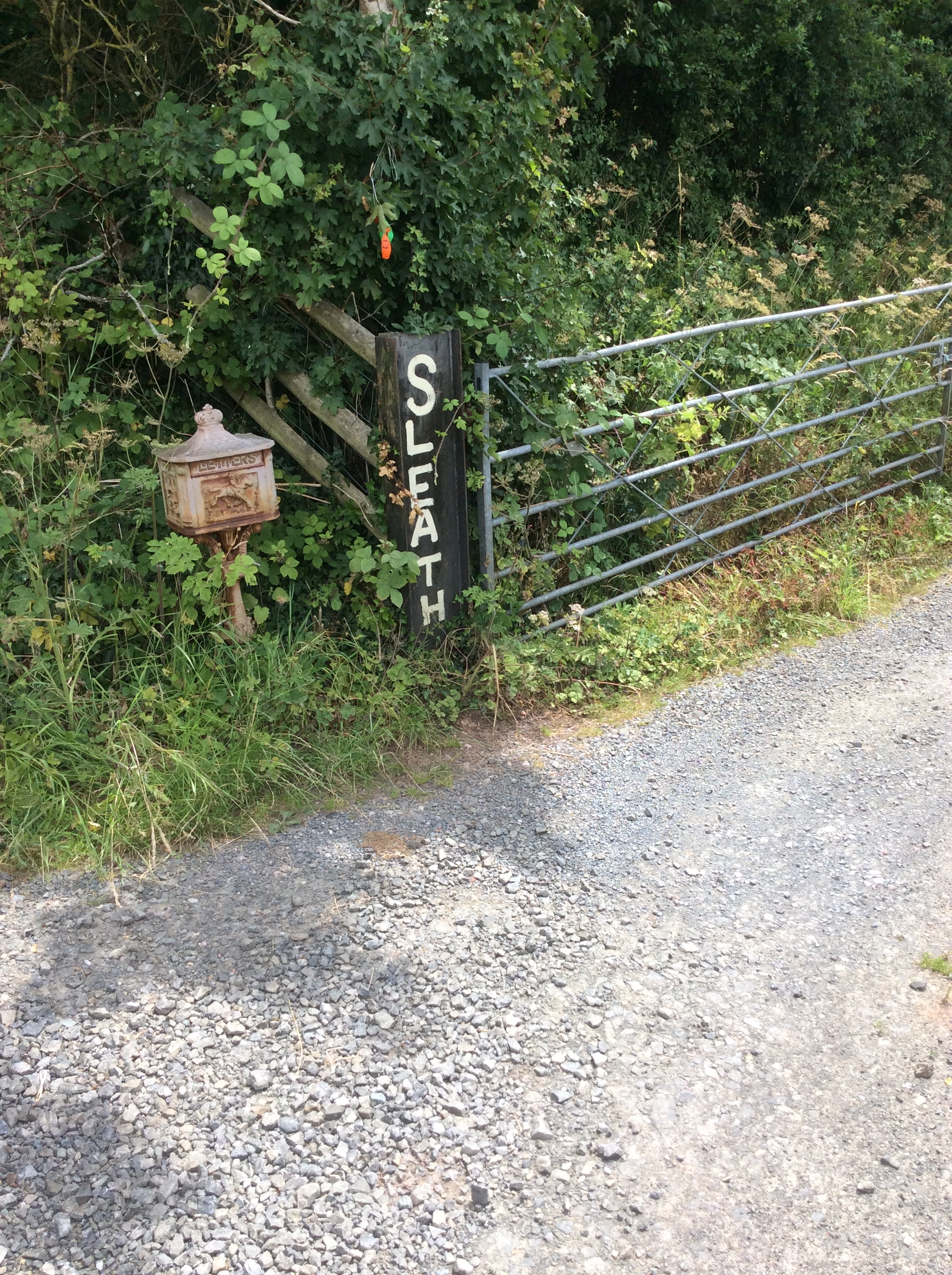 The gate to Sleath Farm, Llangua, Monmouthshire A photo of the farm would be much better but this was as far as I could get.